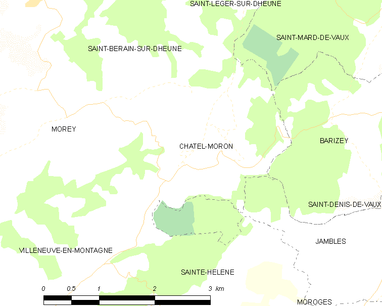 Map of French municipality